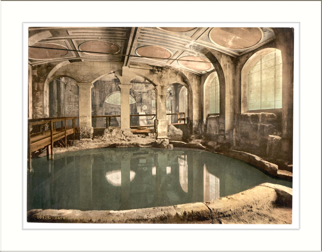 Roman Baths and Abbey Circular Bath Bath England